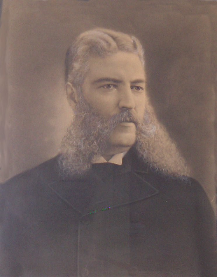 Photo of William Rumsey